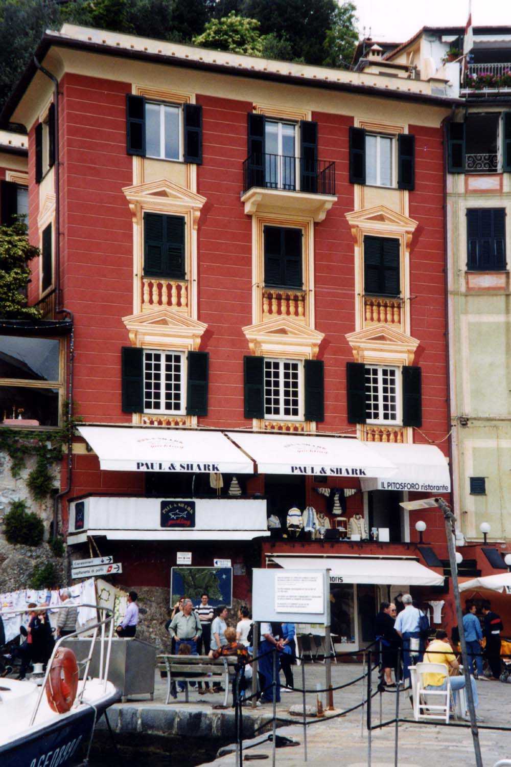 Portofino building